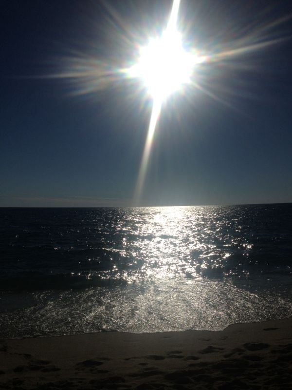 Beautiful sunset near Alanya, Turkey. Man just sits, relax and enjoy. Nature hereby gives us the possibilty to take life at a more gentle pace.